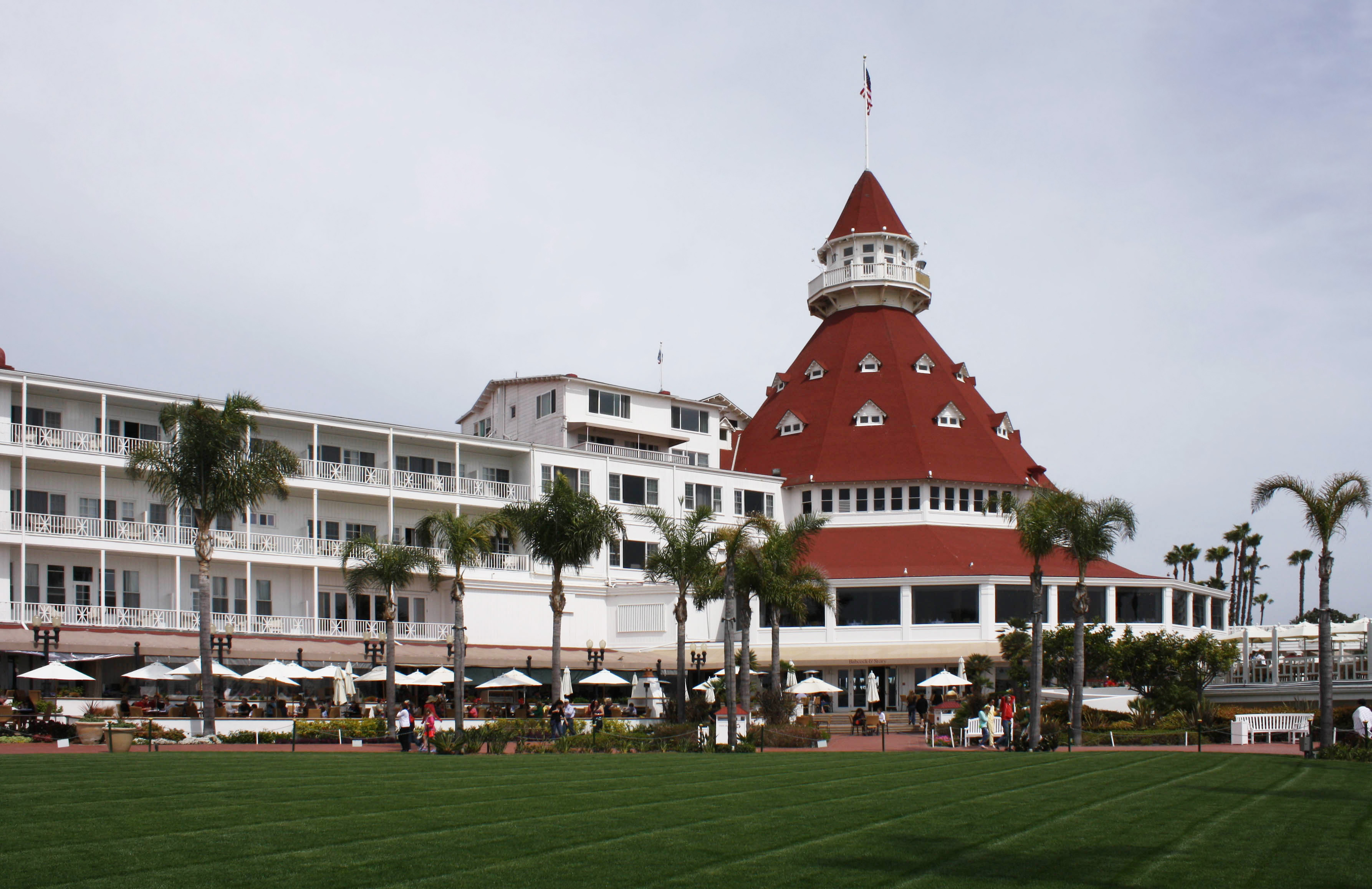 Hotel del Coronado, Coronado Island, California